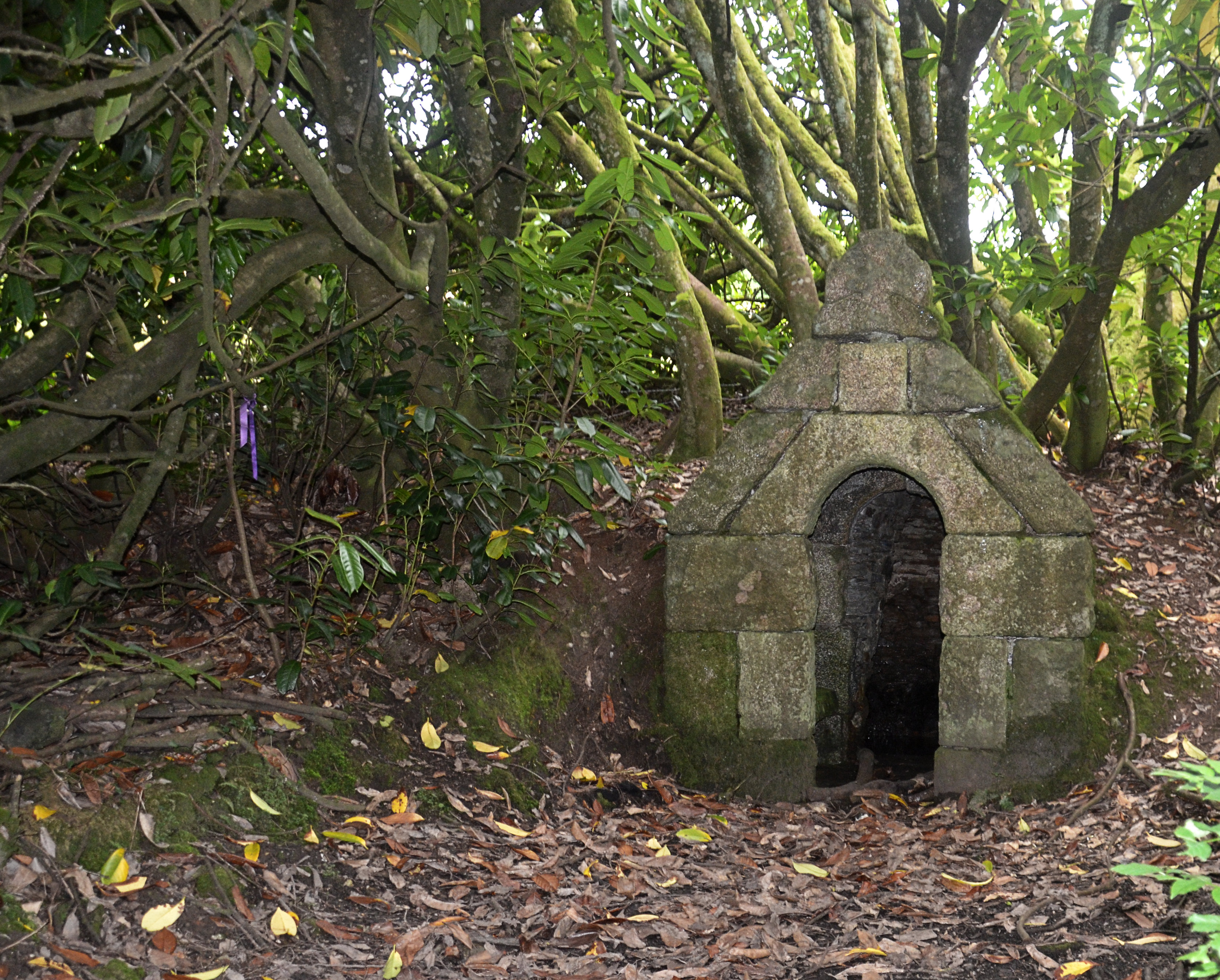 St Cuby's Well in 2017. Branches in entrance blocking passage Wikidata has entry Q26614602 with data related to this item.